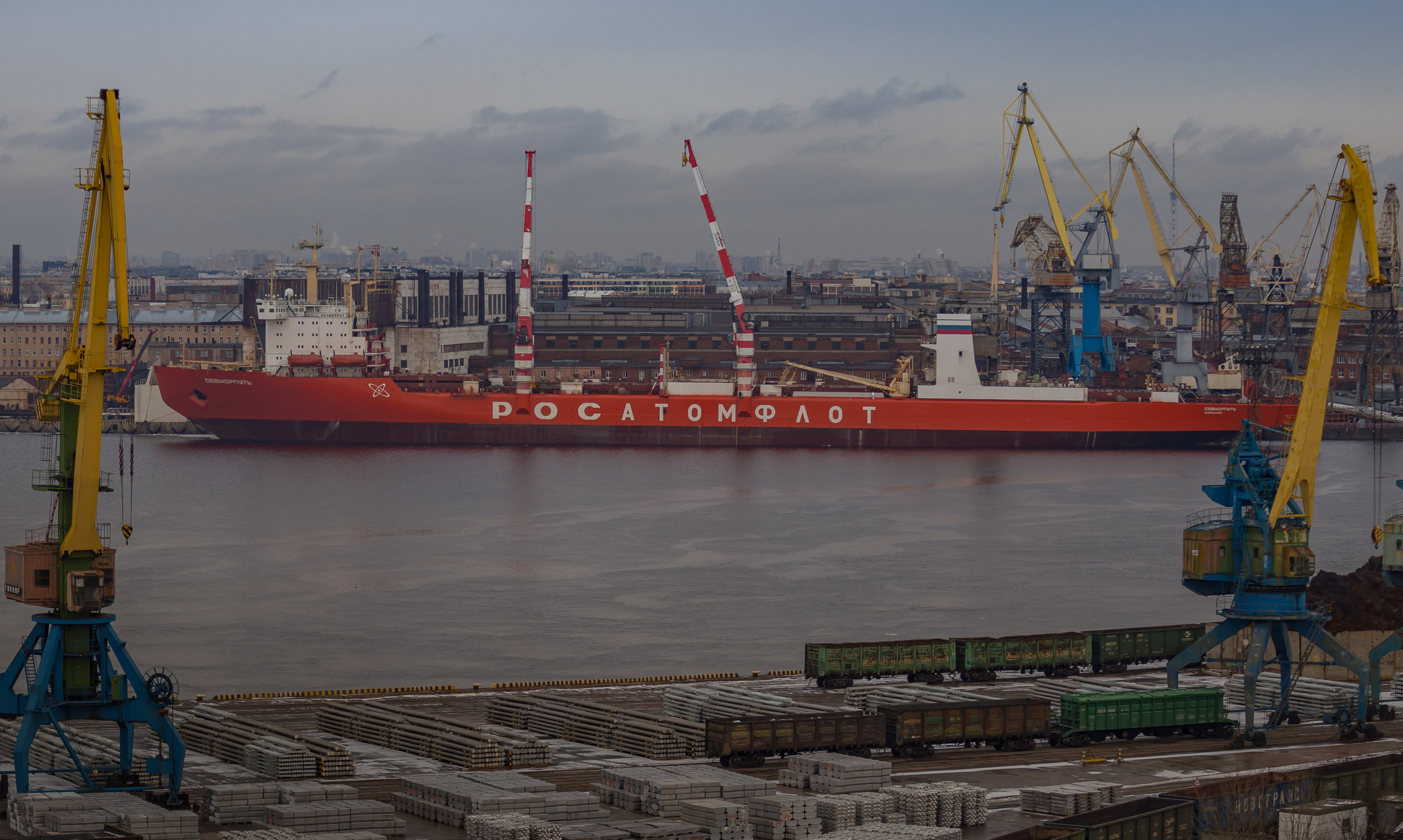 Lighter vessel "Sevmorput" at Saint Petersburg